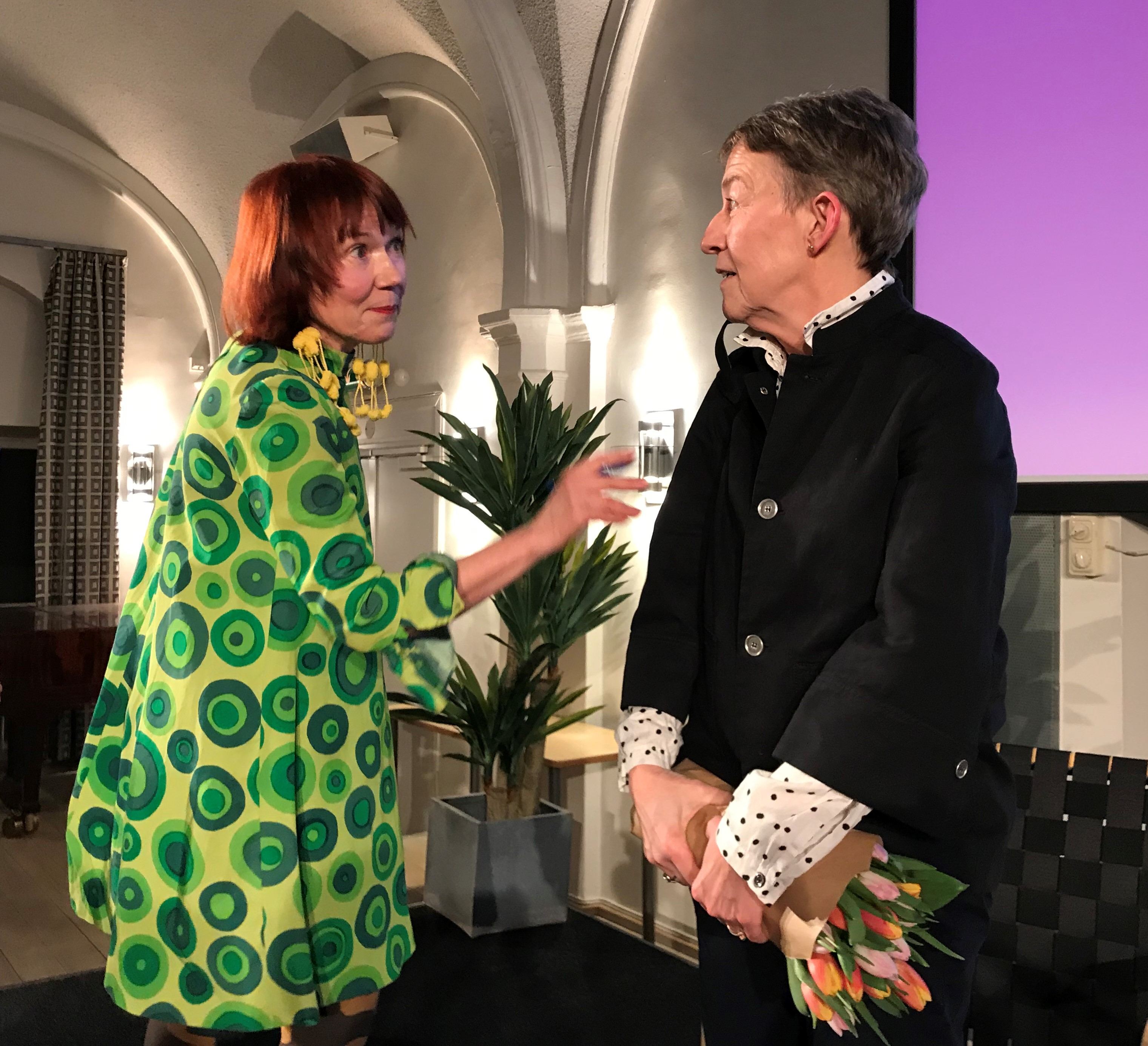 The writer Rosa Liksom together with the translator and literature critic Janina Orlov after the presentation of Rosa Liksom's novel Överstinnan at Finlandsinstitutet in Stockholm, on February 19, 2019, where the latter acted as an interviewer and moderator.